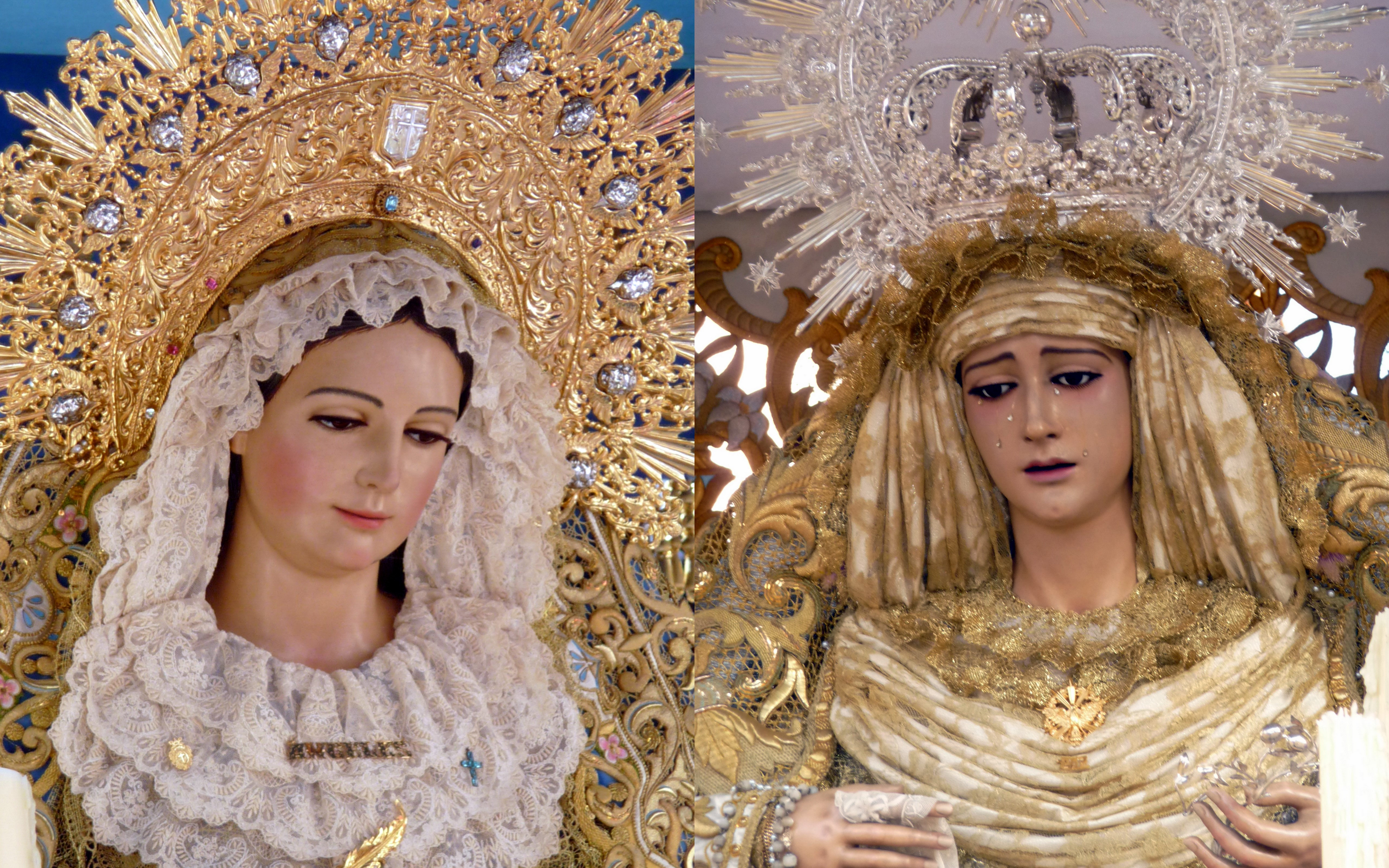 Huelva Holy Week